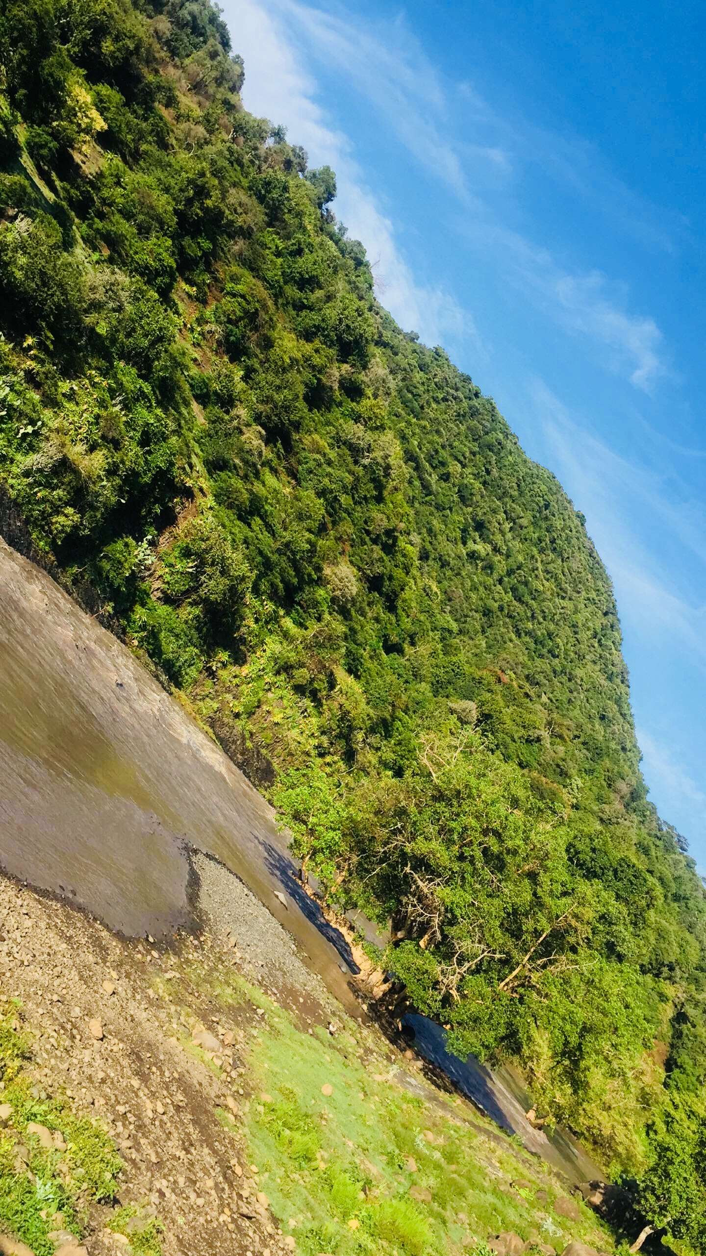 This is an image with the theme "Africa on the Move or Transport" from: Ethiopia